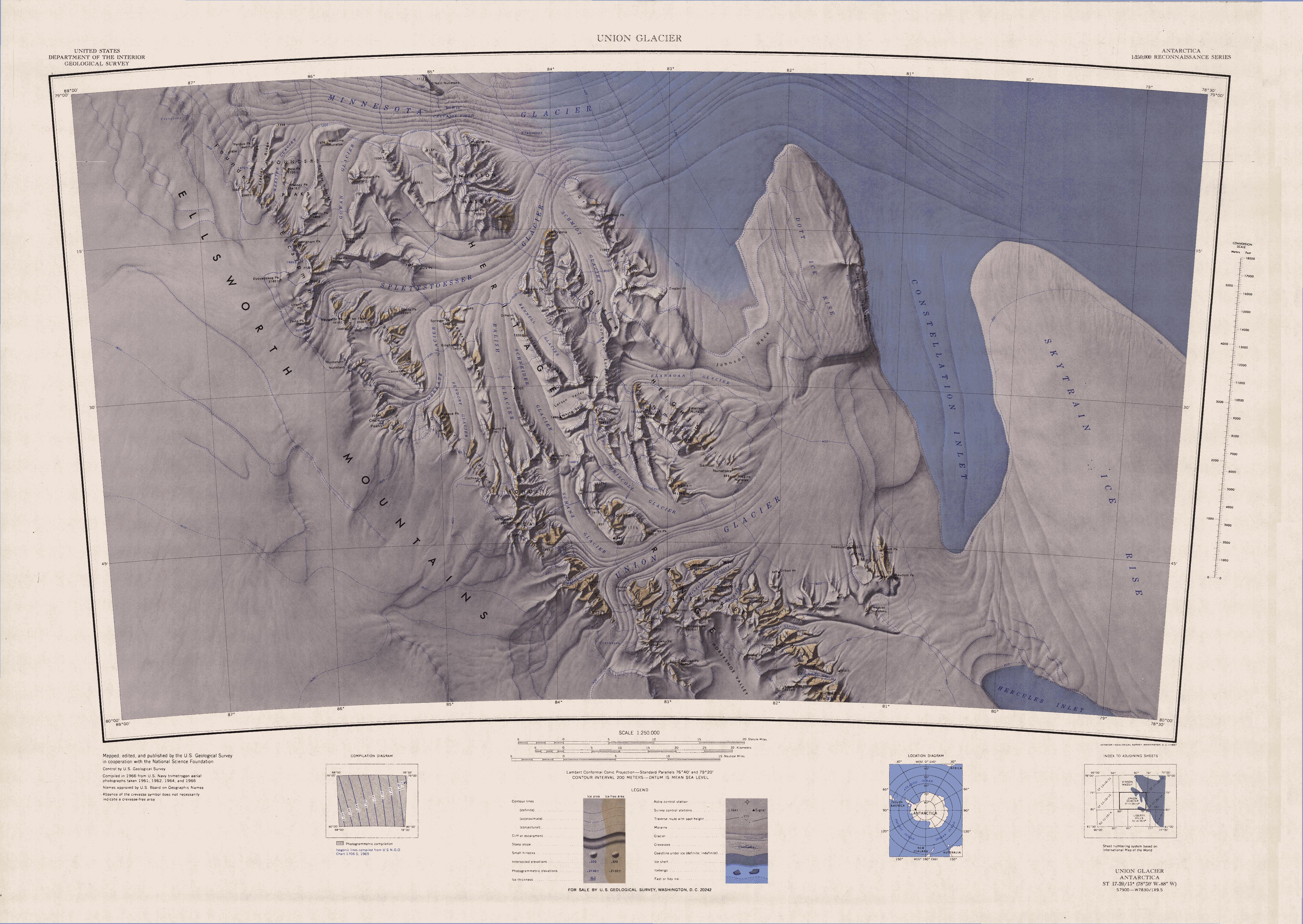 Map of Antarctica by the United States Antarctic Resource Center of the US Geological Society.